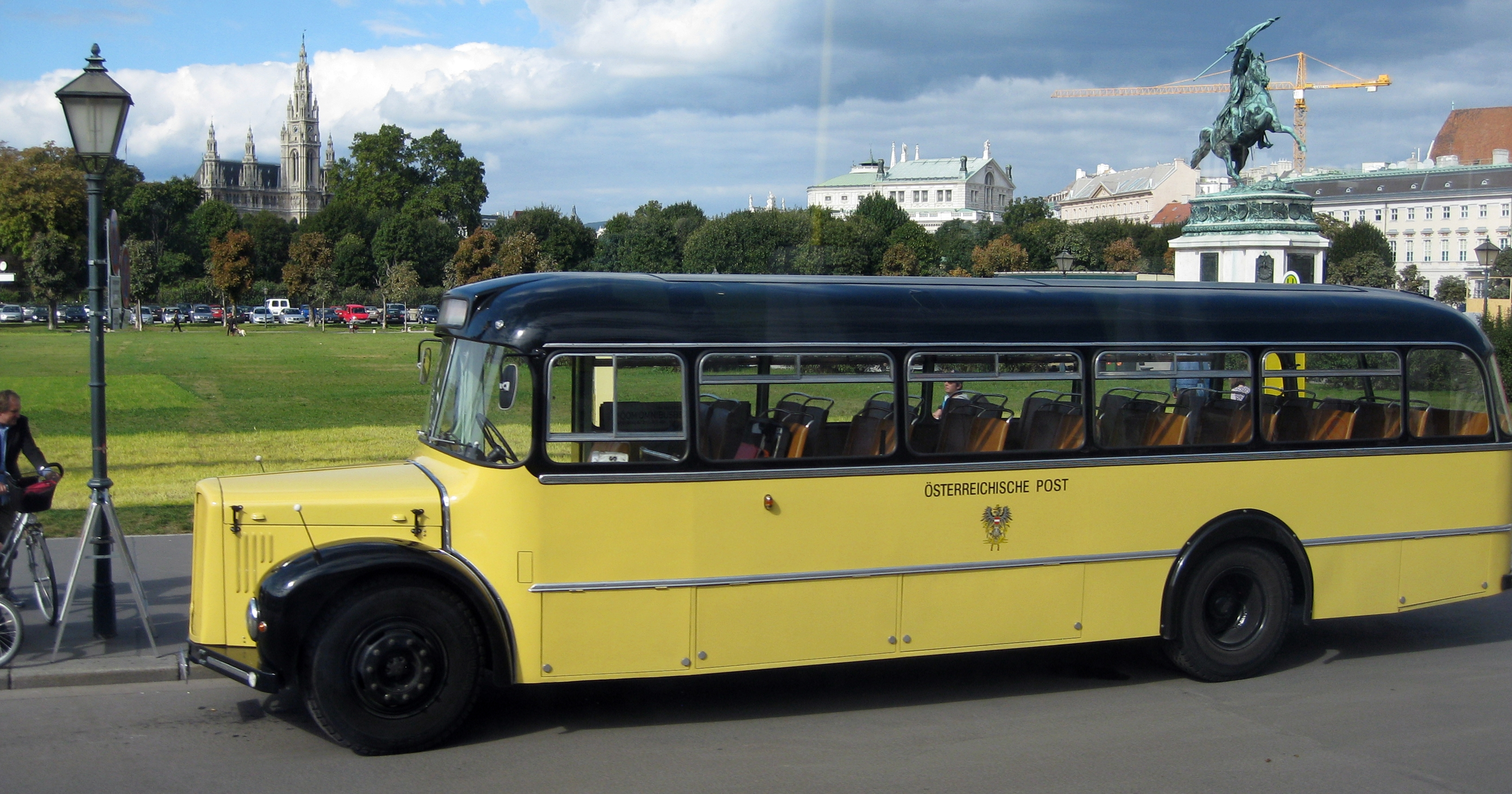 Austria, Vienna: historical Bus of the Austrian post (Saurer 5GF-U), build in the 1950es